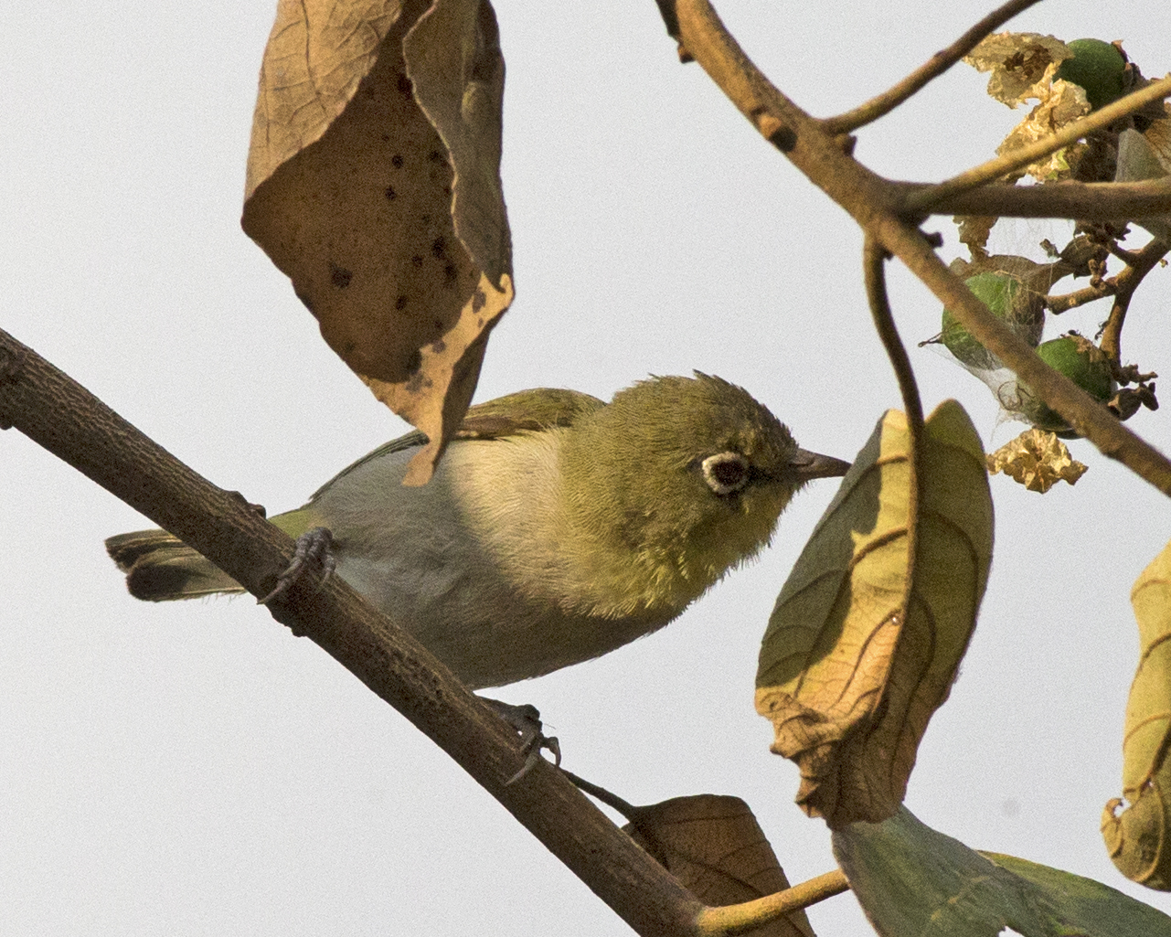 White-breasted White-eye Zosterops abyssinicus 14th, January 2015 CF2P8458